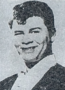 Detail of the grave of Ritchie Valens at San Fernando Mission Cemetery.